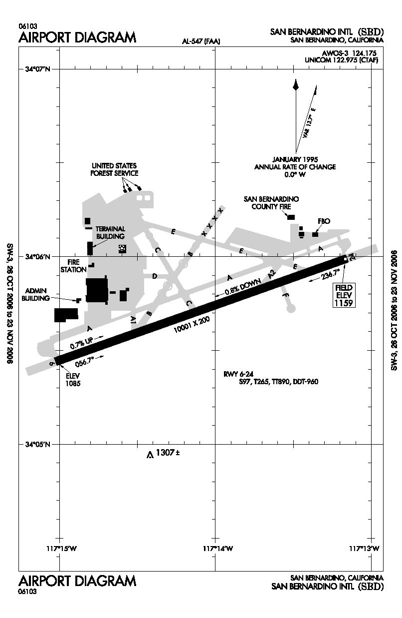 FAA airport diagram for SBD (San Bernadino International Airport) in California, United States.